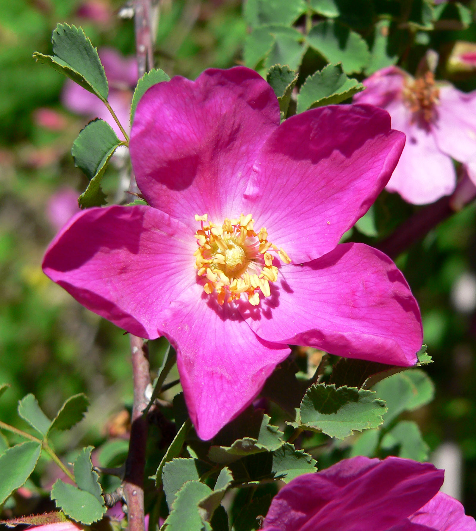 Rosa willmottiae at the University of California Botanical Garden, Berkeley, California